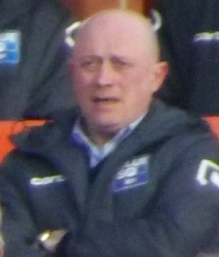 Nicky Law, manager of Alfreton Town F.C., watching a match in 2013.